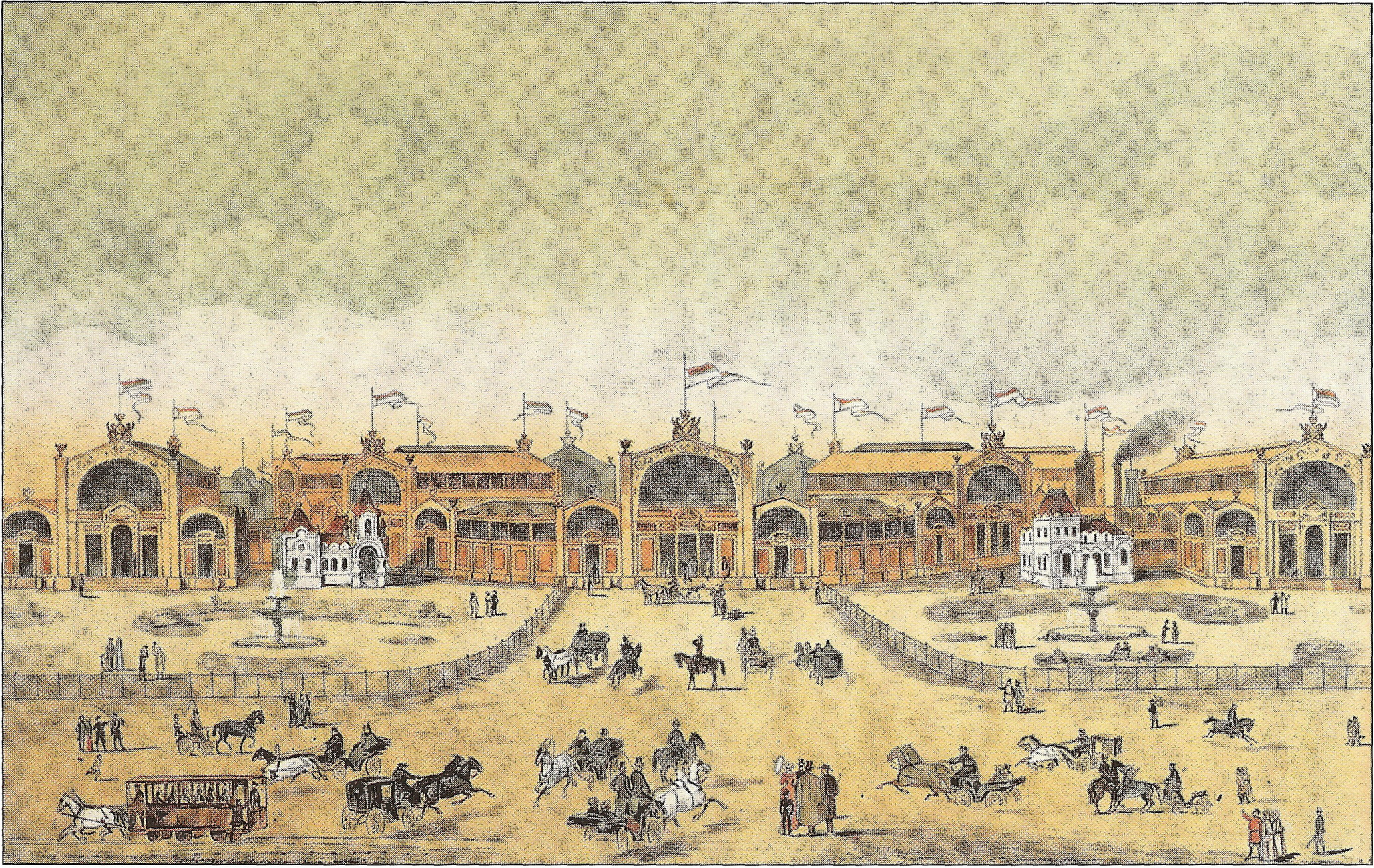 All-Russia Exhibition 1882 in Moscow. Lithography